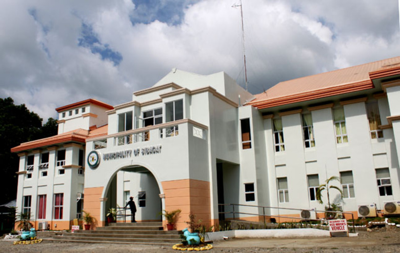 Sibagat town hall front view